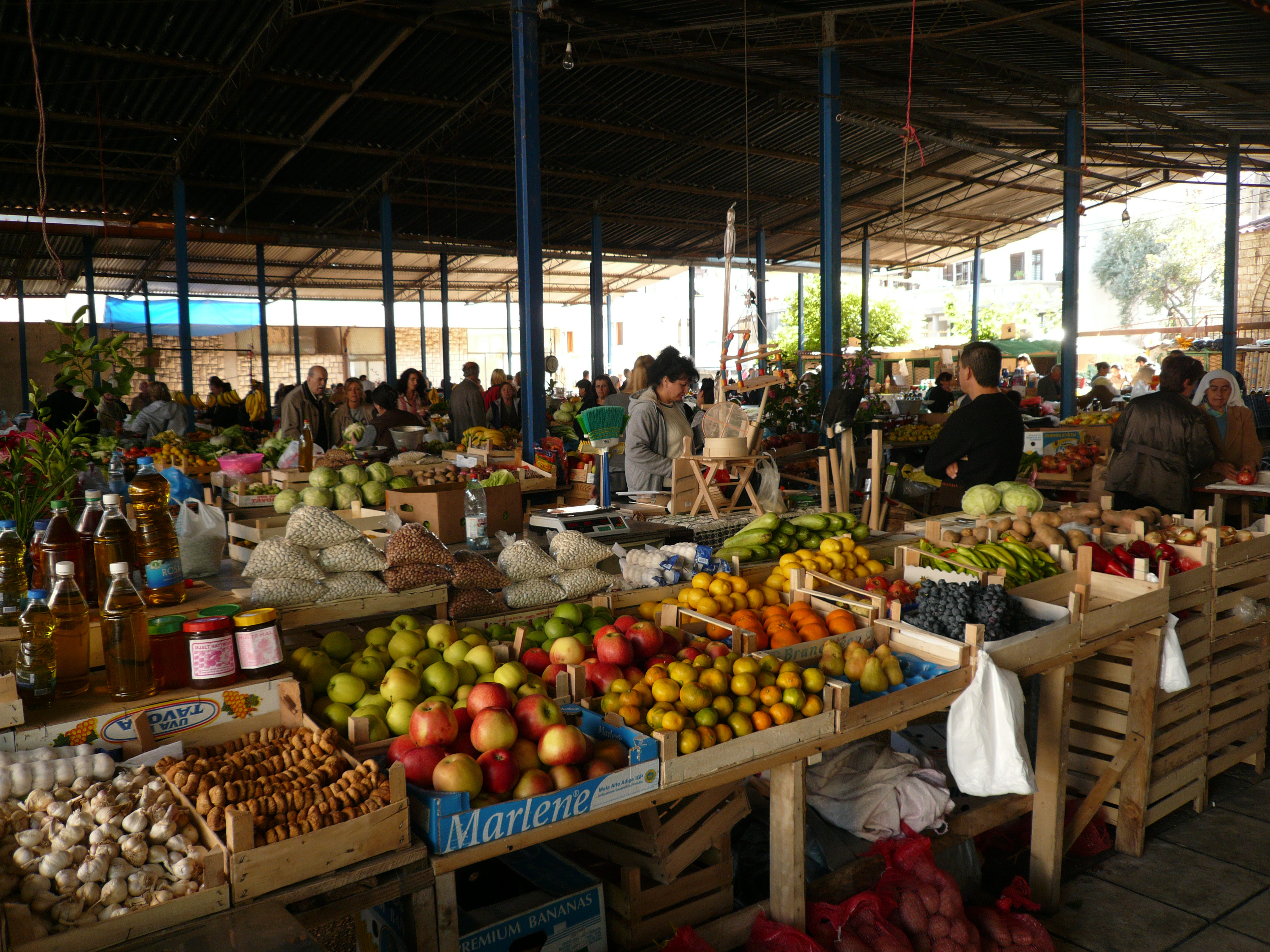 Market in Ulcinj, Montenegro